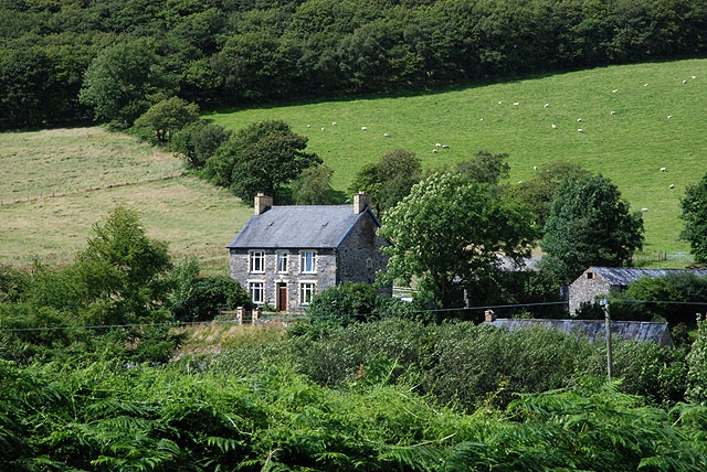 Glanrafon farm A typical stone-built farm of the area, seen from the mountain road from Talybont to Ponterwyd.